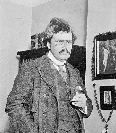 Gilbert Keith Chesterton, (b. 29 May 1874 – d. 14 June 1936), English writer